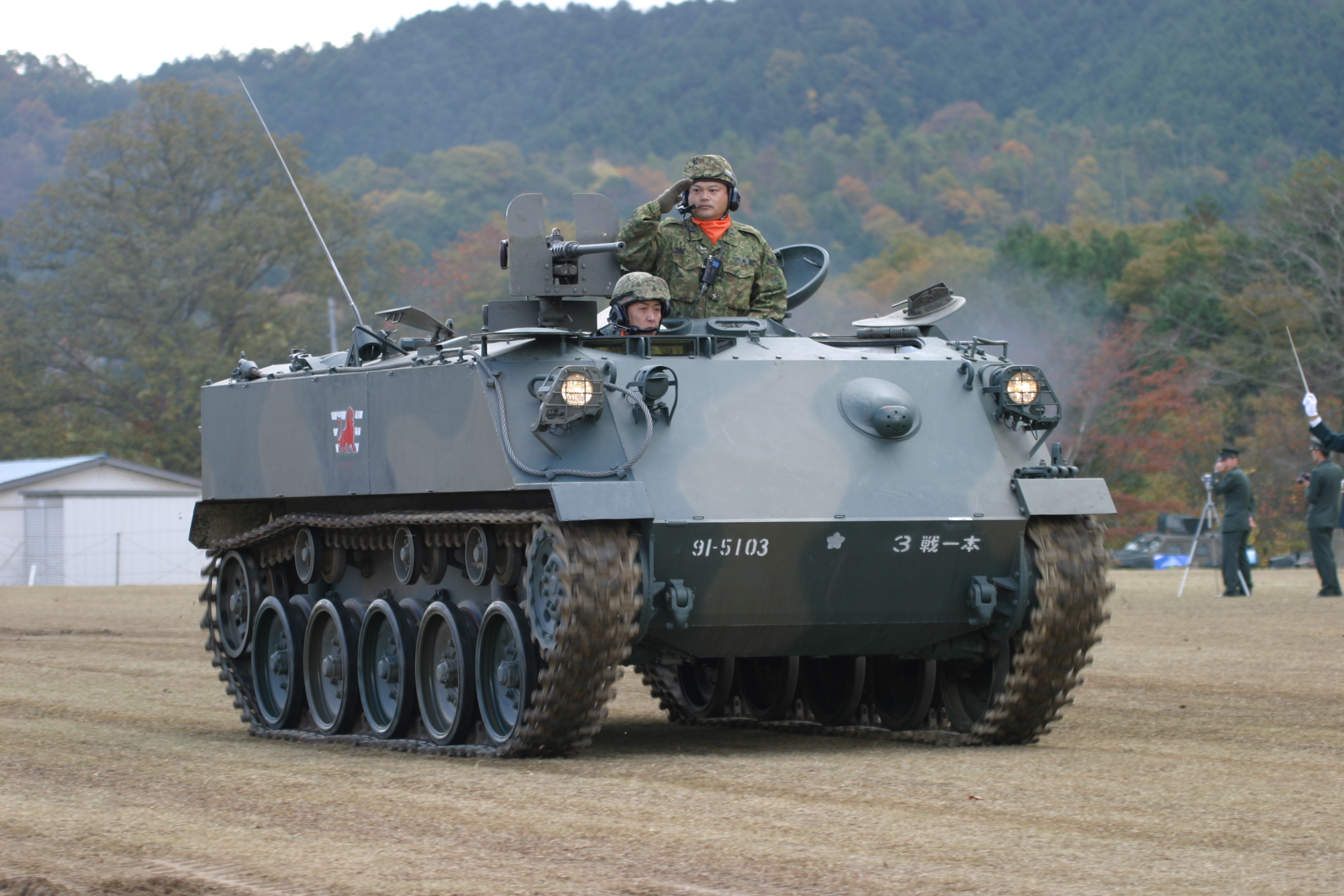 Subject: Type60 APC of the JGSDF displayed at JGSDF CAMP Fukuchiyama Source: photo by earlyBird, taken 2005/11/20